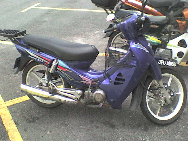 The author's own 2000 Modenas Kriss 2 (front disc brake, original green cover sets have been replaced with blue cover sets)